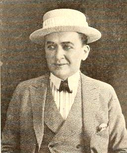 Still from the American film Checkers (1919) with Thomas Carrigan, on page 1629 of the August 23, 1919 Motion Picture News.